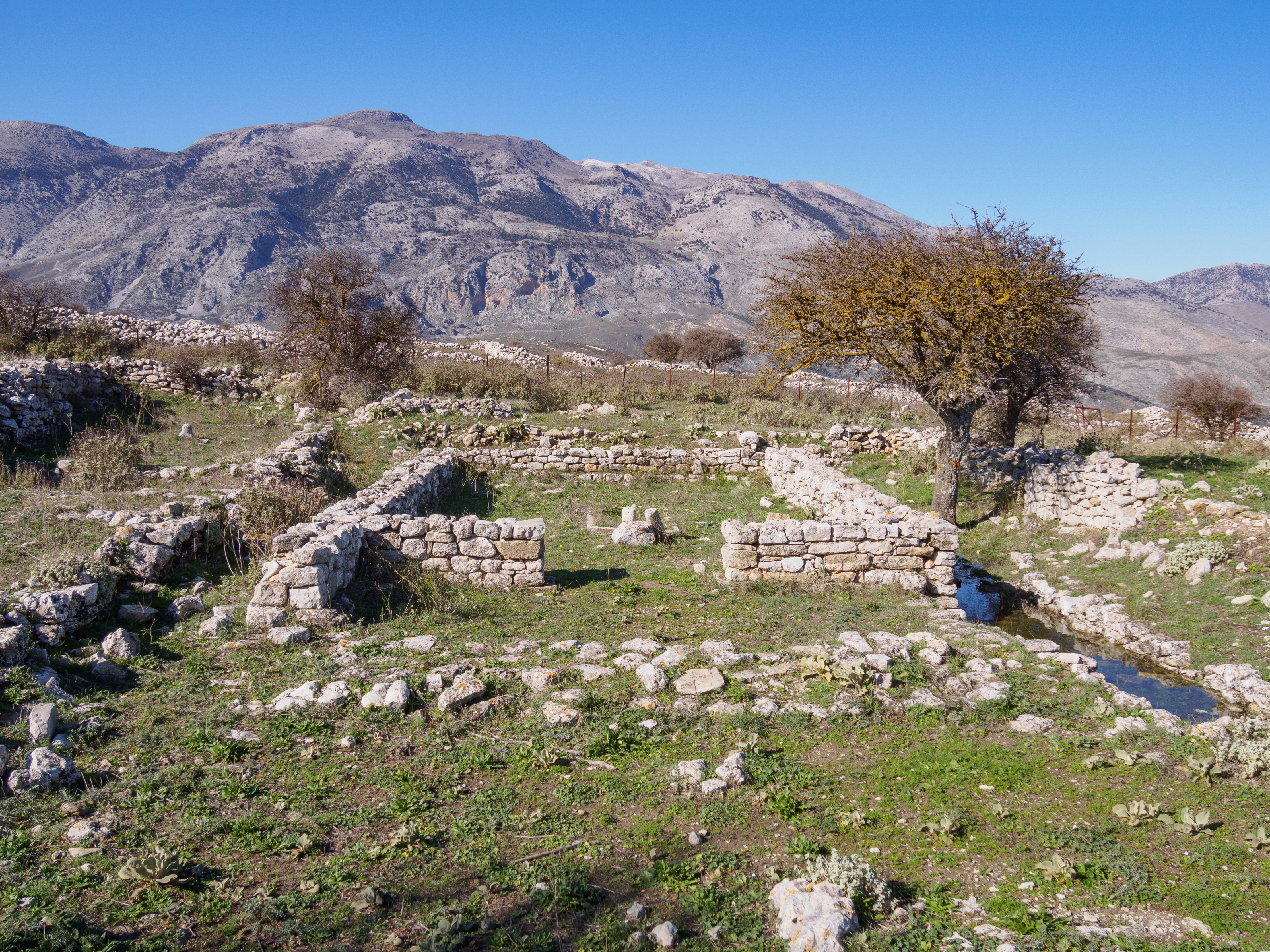 Temple A, Rizinia, seen from east.